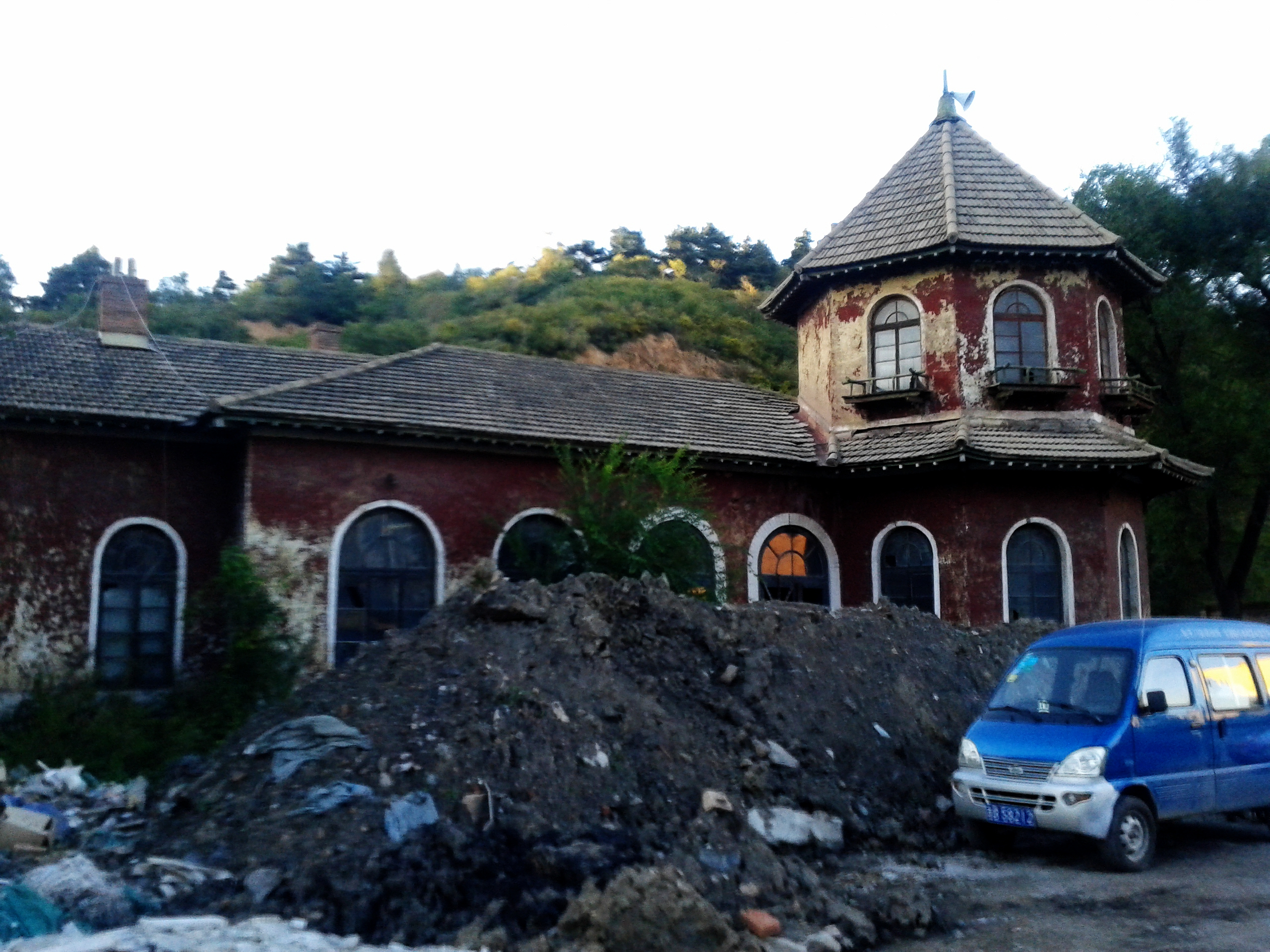 The waiting hall of beishan railway station